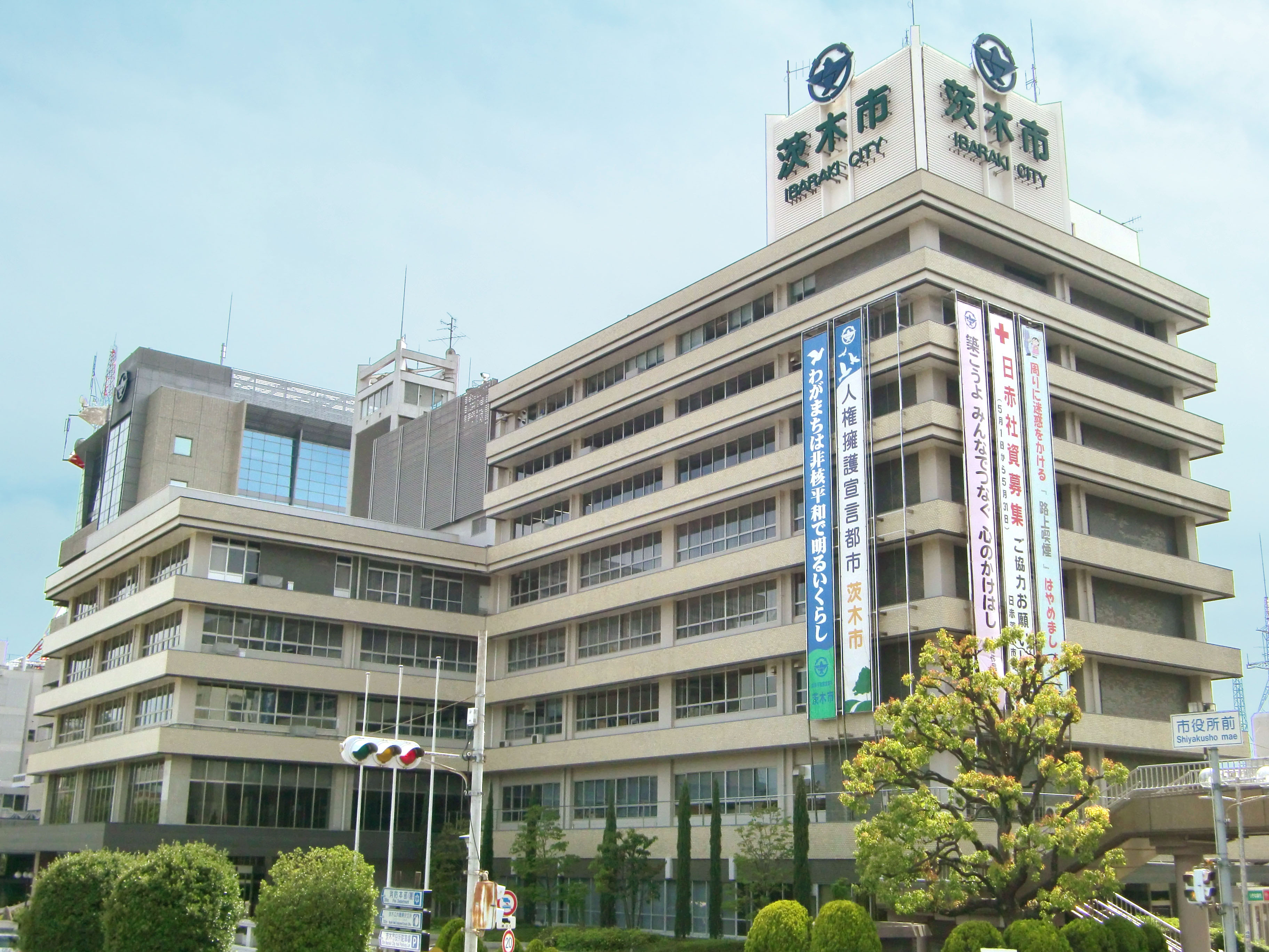 Ibaraki City Hall, 8-13 Ekimae-3chome Ibaraki-City Osaka JAPAN.